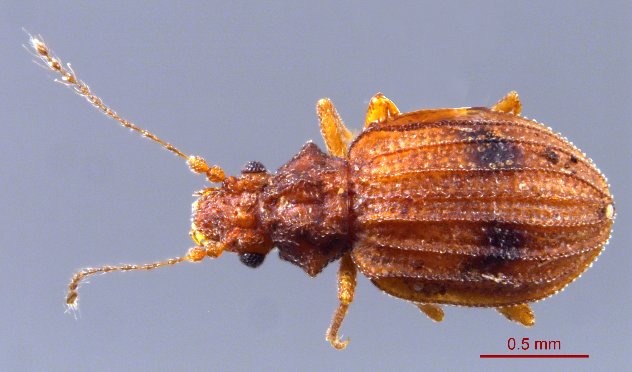 Dasycerus bicolor specimen # LSAM0014768